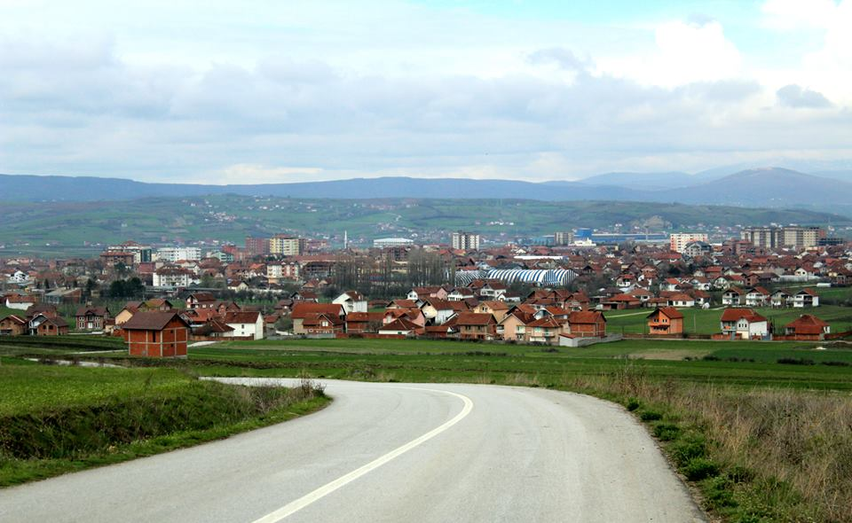 Qyteti i Vushtrris